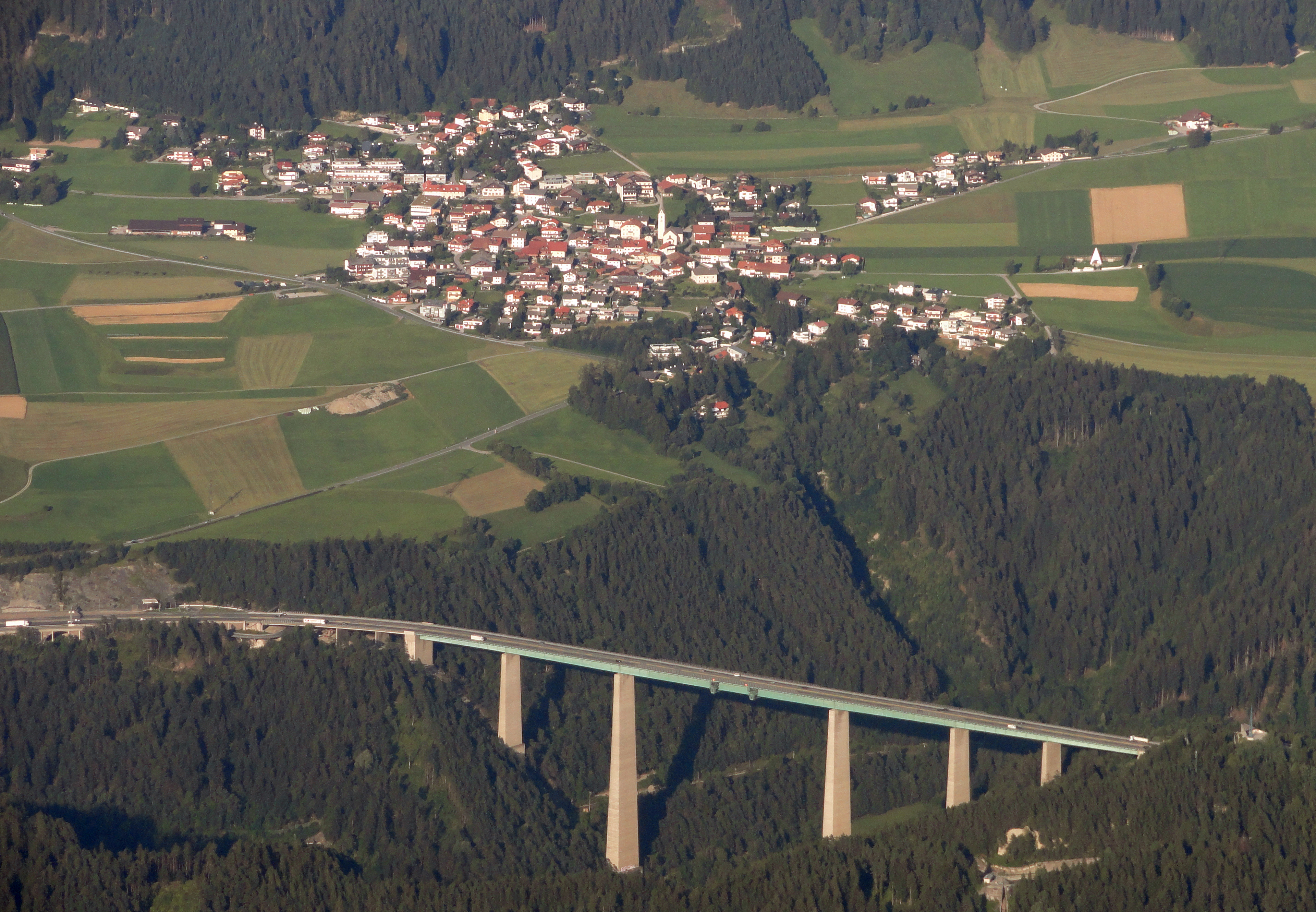 Patsch and Europabrücke from W (Saile)